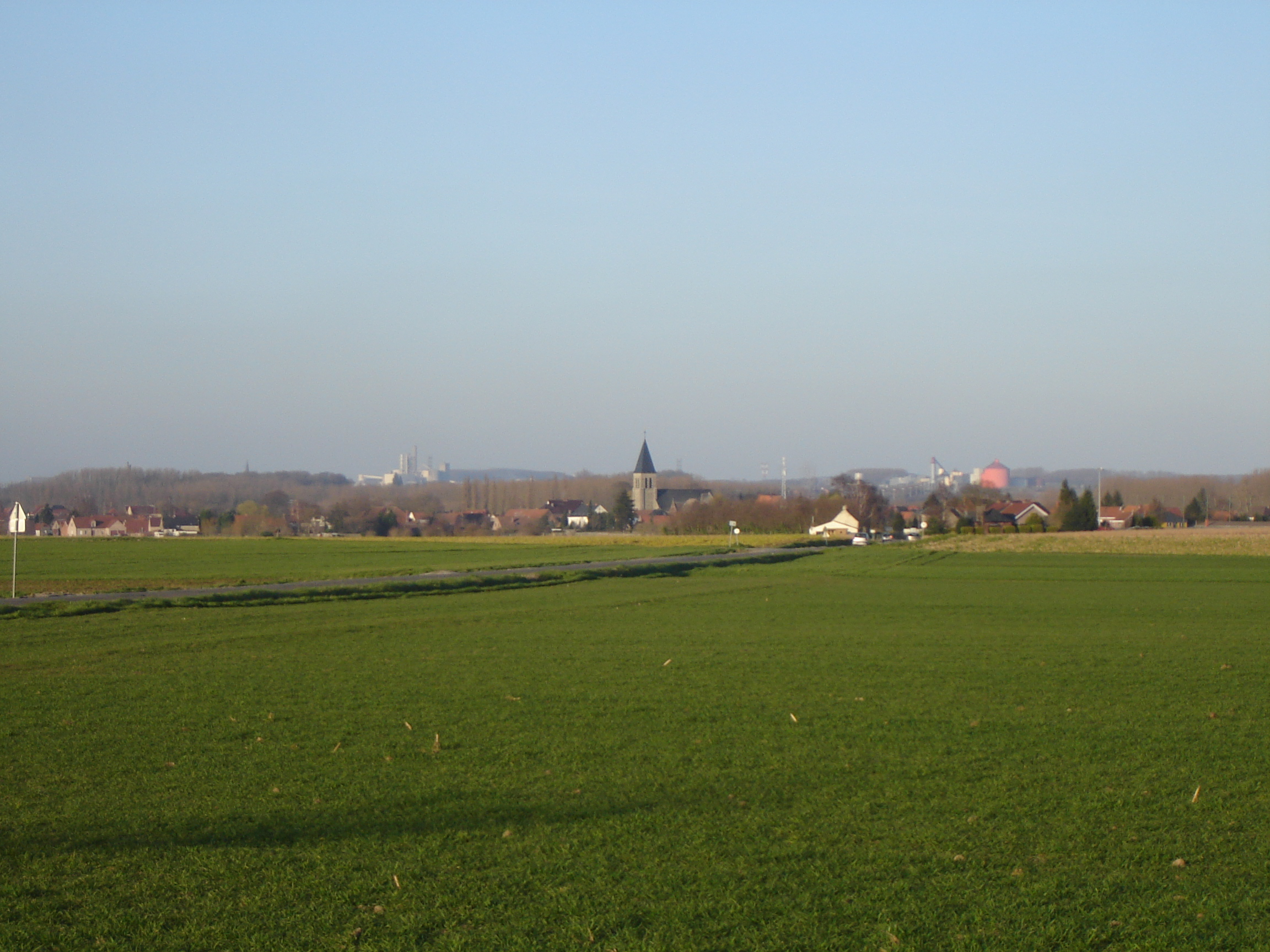 The village of Hollain, as seen from Pierre de Brunehaut menhir site. On the background, the industry around Antoing. Hollain, Brunehaut, Hainaut, Belgium